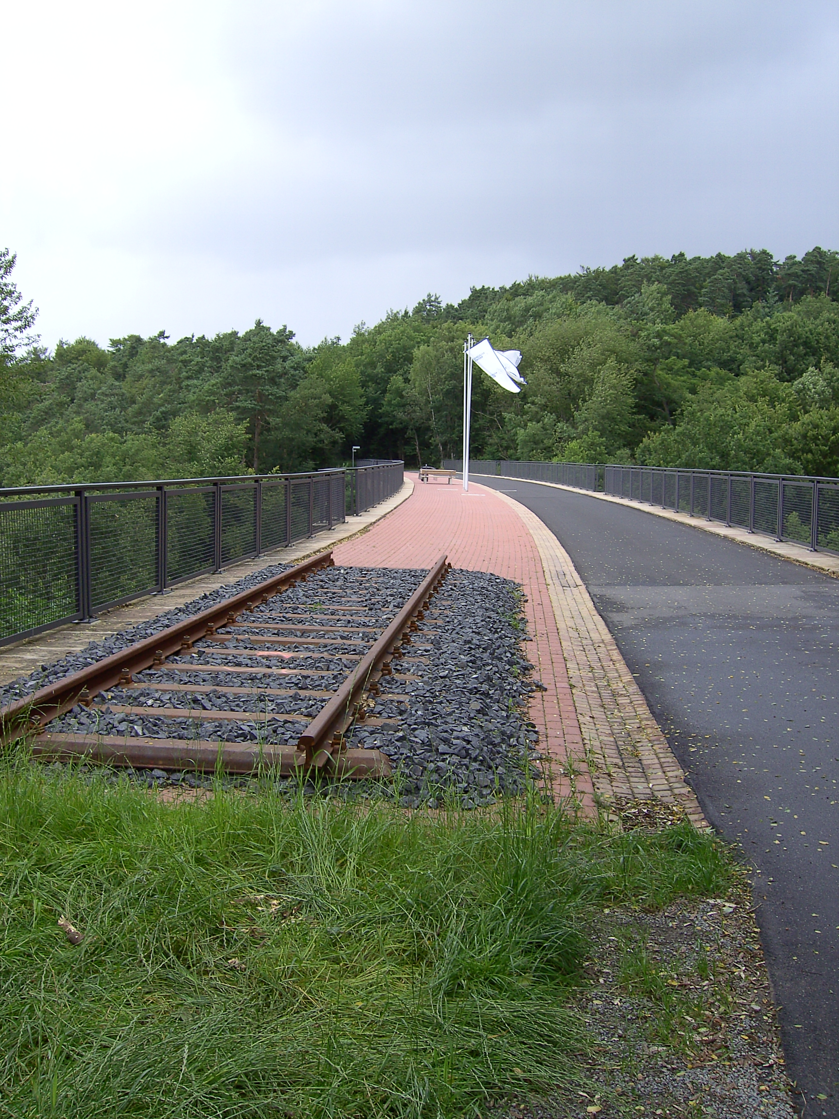 Skittles bike-Trail crossing amount Klausmarbach viaduct